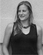 Lauren Groff Black & White Picture. Taken in Gainesville, FL in 2007